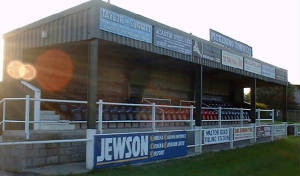 Pickering Town's main stand, capacity 120.